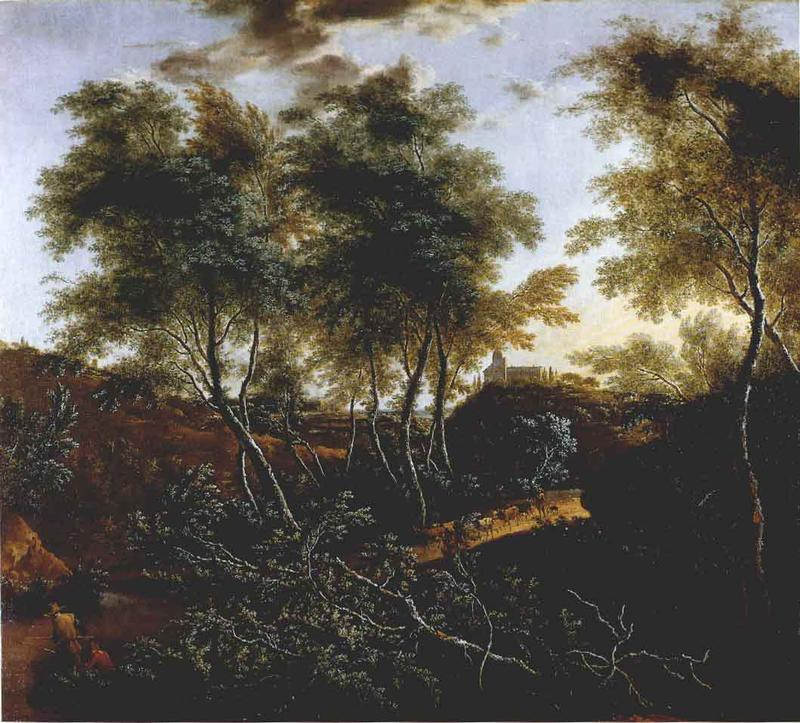 Italian Landscape